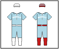 Uniforms of the Nashville Blues minor league baseball team